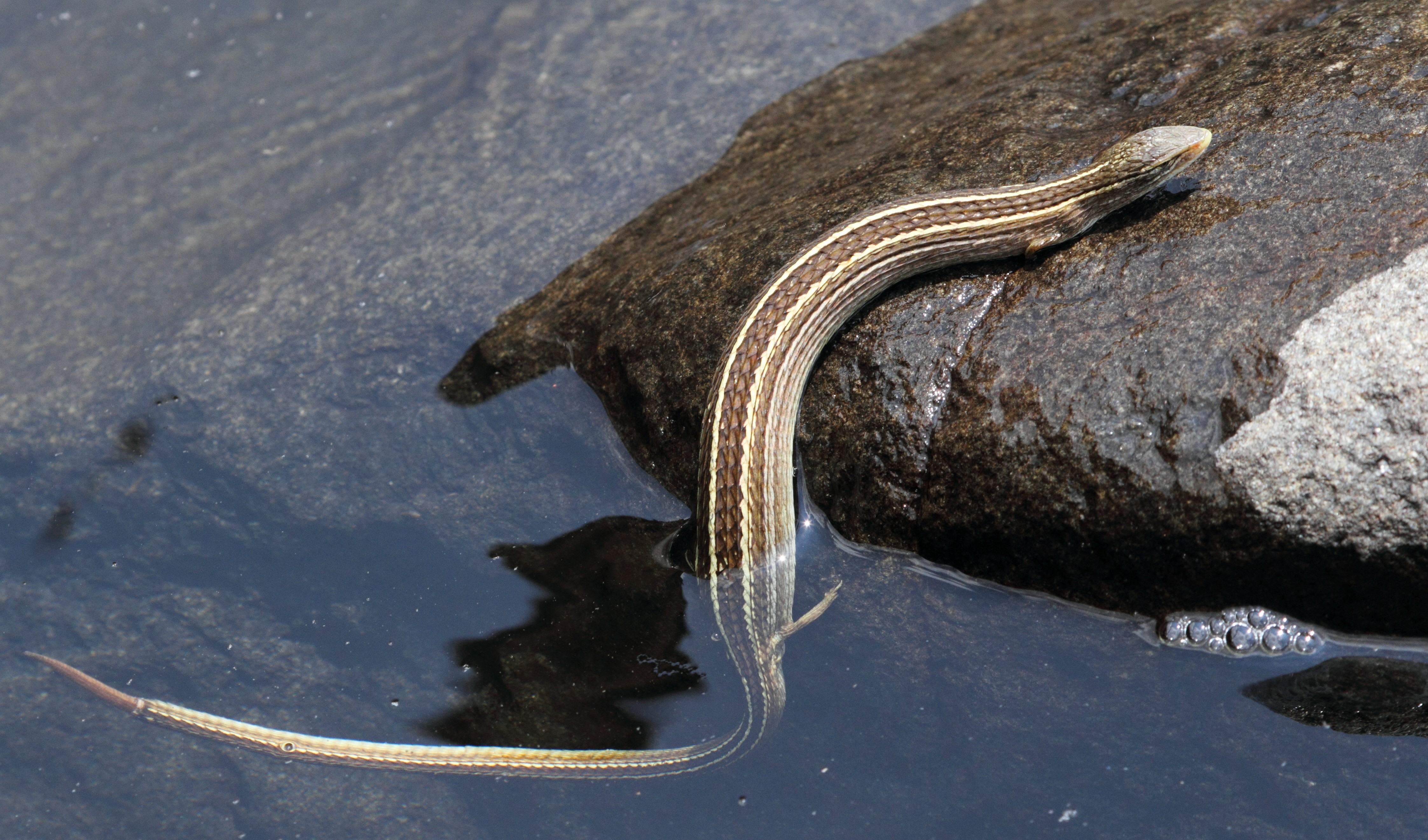 Coppery Grass Lizard Chamaesaura aenea; Garden Castle Nature Reserve, KwaZulu-Natal Drakensberg, South Africa.